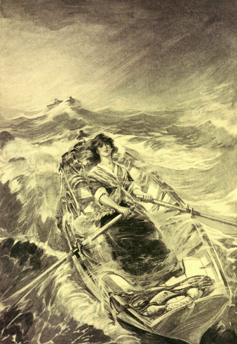 IDA LEWIS (Ten American Girls from History 1917)